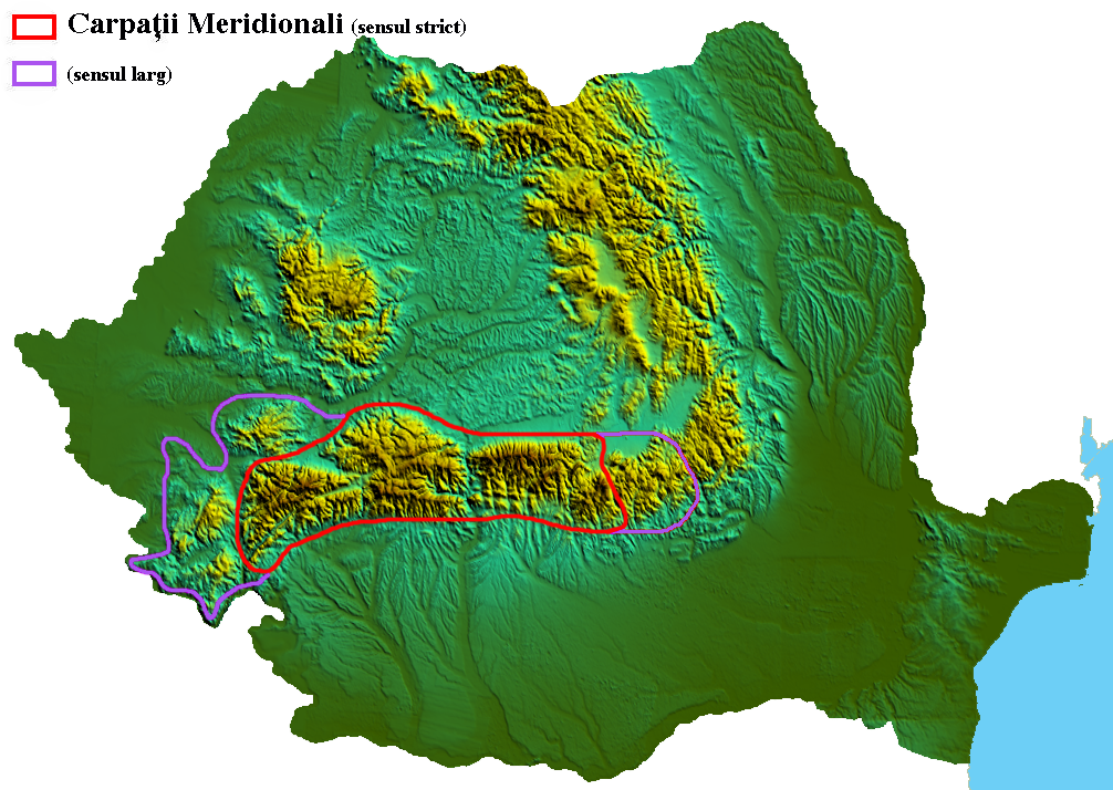 Derivative map since Qyd's map Romania-relief.png ([1]) and Marcussep's map Mapcarpat2.png ([2]), according with Albert Demangeon & Emmanuel de Martonne works ("Recherches sur l'évolution morphologique des Alpes de Transylvanie (Carpates méridionales)", Paris, Delagrave, 1906 and Géographie universelle (dir. Vidal de la Blache, Gallois), vol. IV : "Europe centrale", Paris, Armand Colin, 1930 & 1931